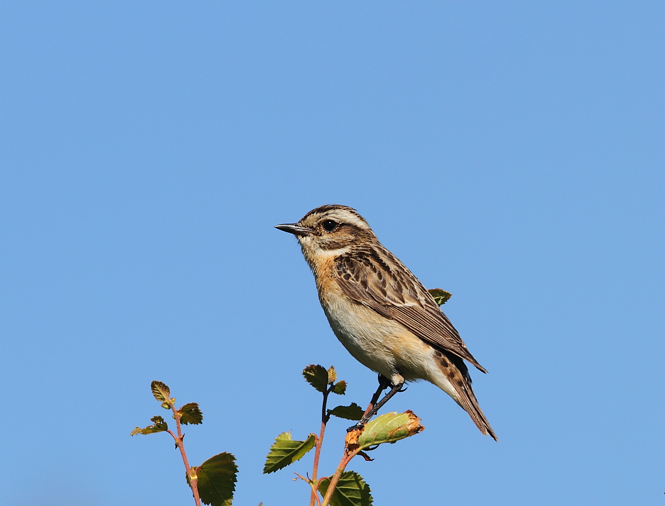 Whinchat